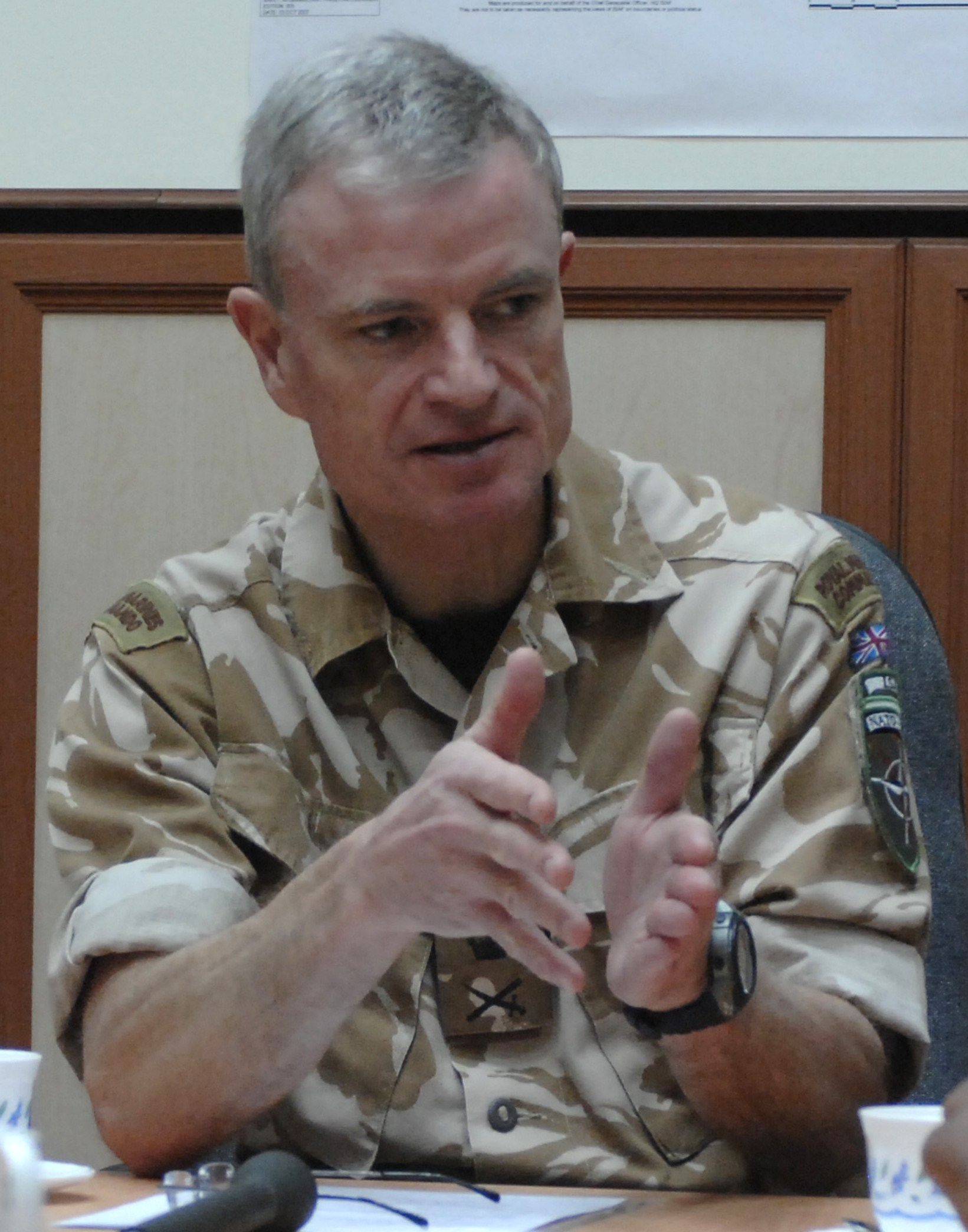 Royal Marine Lieutenant General James Dutton